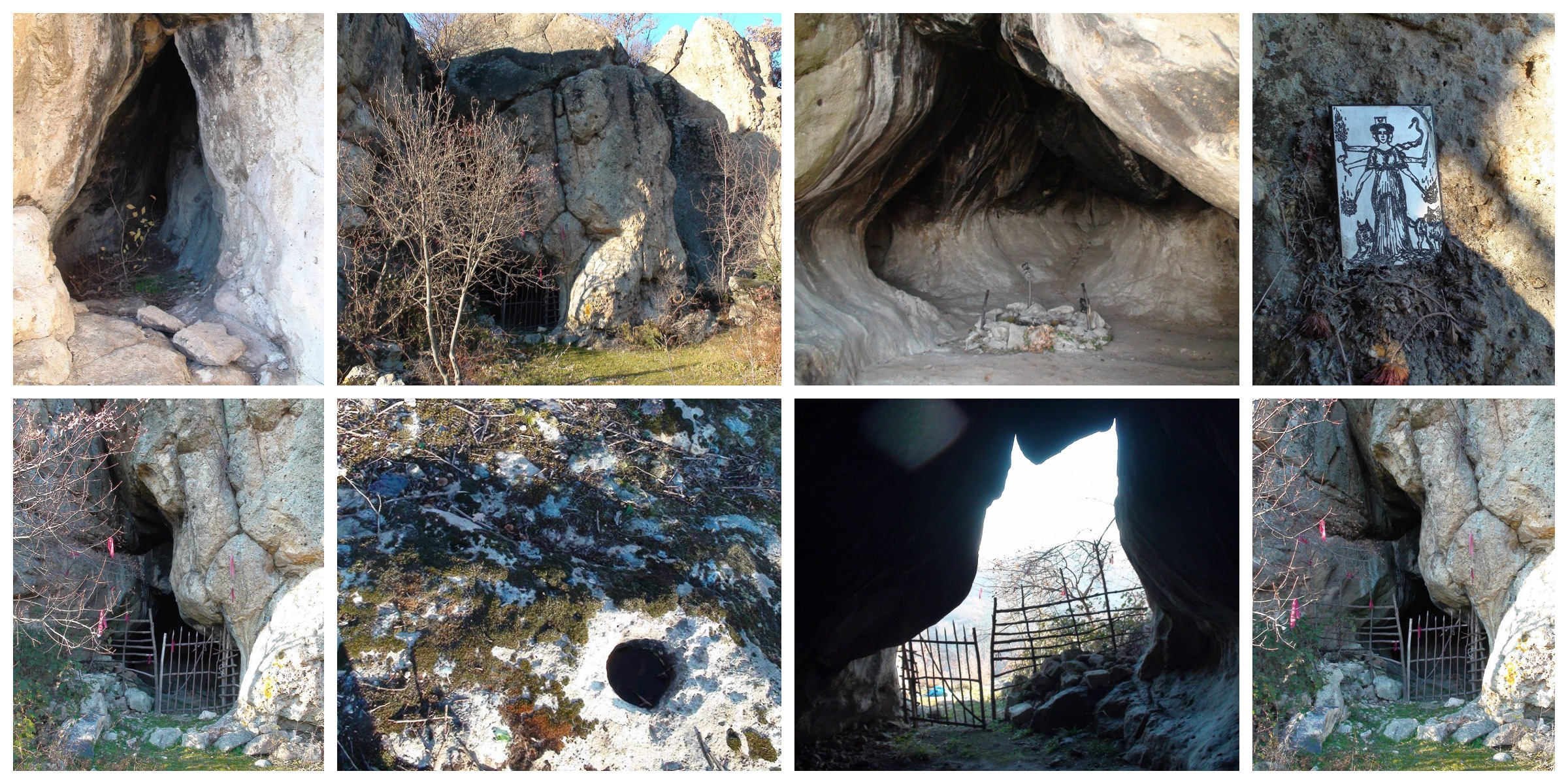 Tatul Womb Cave East Rhodopes BG